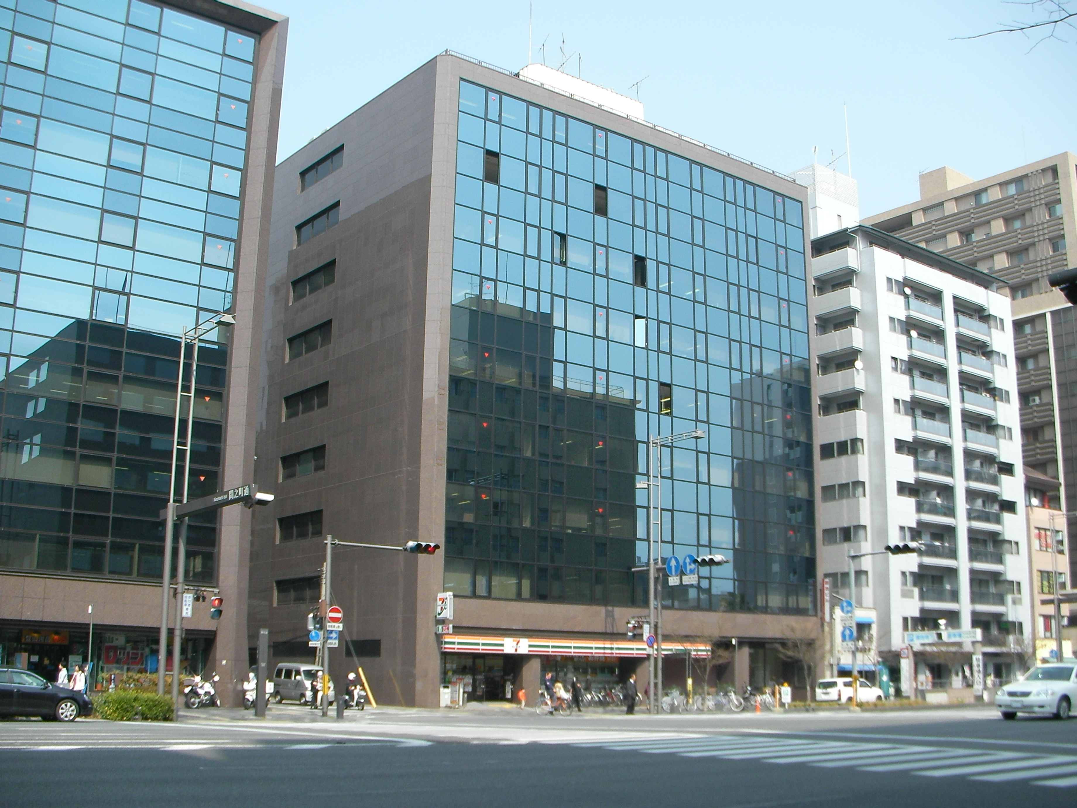 Oike building in wehre Hatena Kyoto Office is. 9F Oike building, 206 Takamiya-cho, Nakagyo-ku, Kyoto Japan.